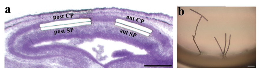 Laser capture microdissection of four cell populations from the embryonic E15 mouse brain. a. Subplate (SP) and lower cortical plate (CP) from anterior and posterior cortex are isolated from 20 μm cryosection using a PALM Microbeam. b. Microdissected tissue strips are harvested in RNA stabilization solution and can be visualized in the cap of the collection tube. Scalebars: a. 500 μm. b. 200 μm.